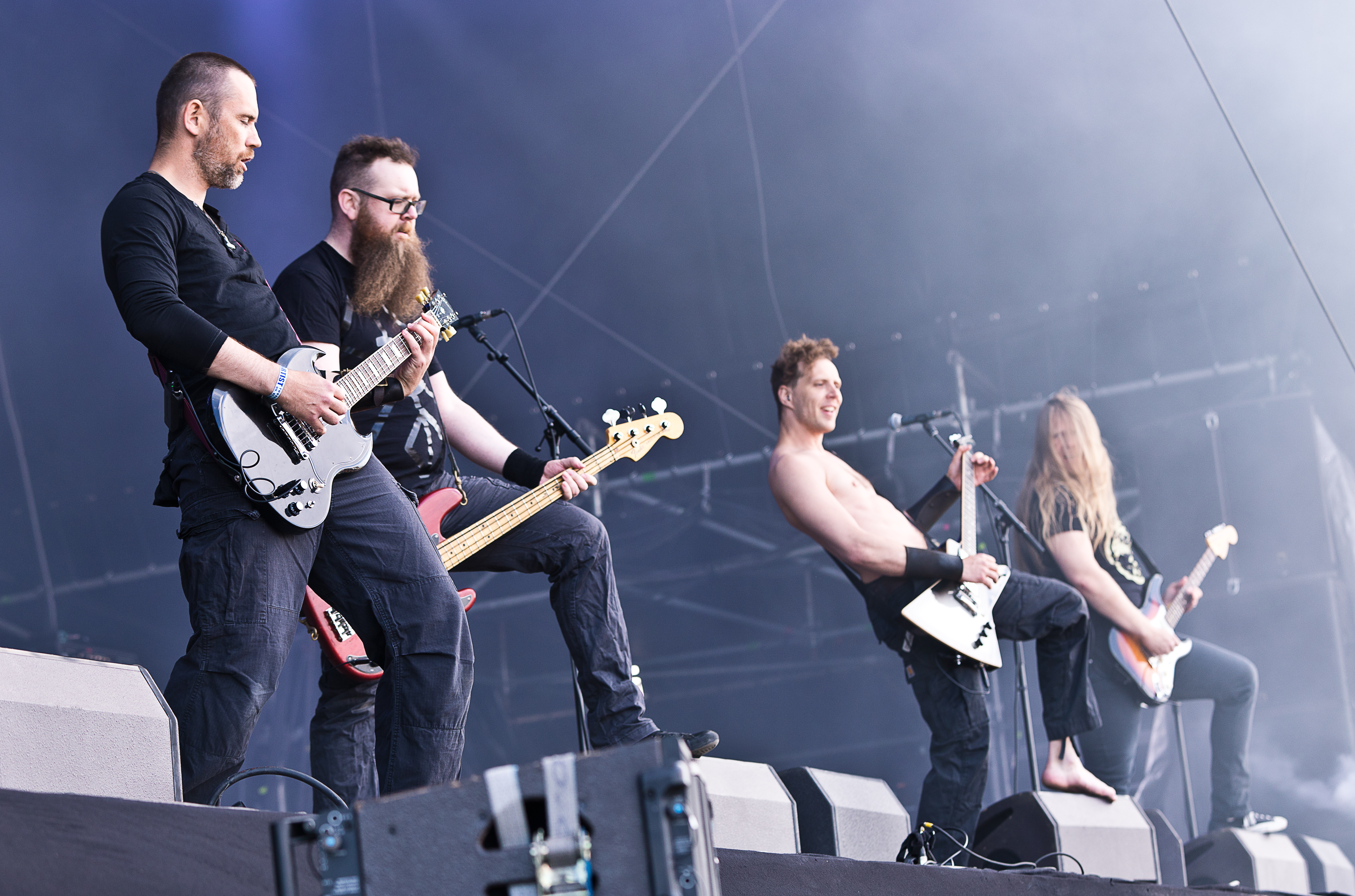 The Islandic viking metal band Skálmöld at the Rockharz Open Air 2015 in Ballenstedt/Germany.